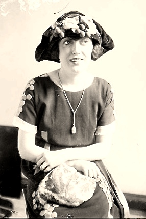 Actress Mabel Normand seated in chair,, wearing hat, smiling slightly, looking to right of camera.